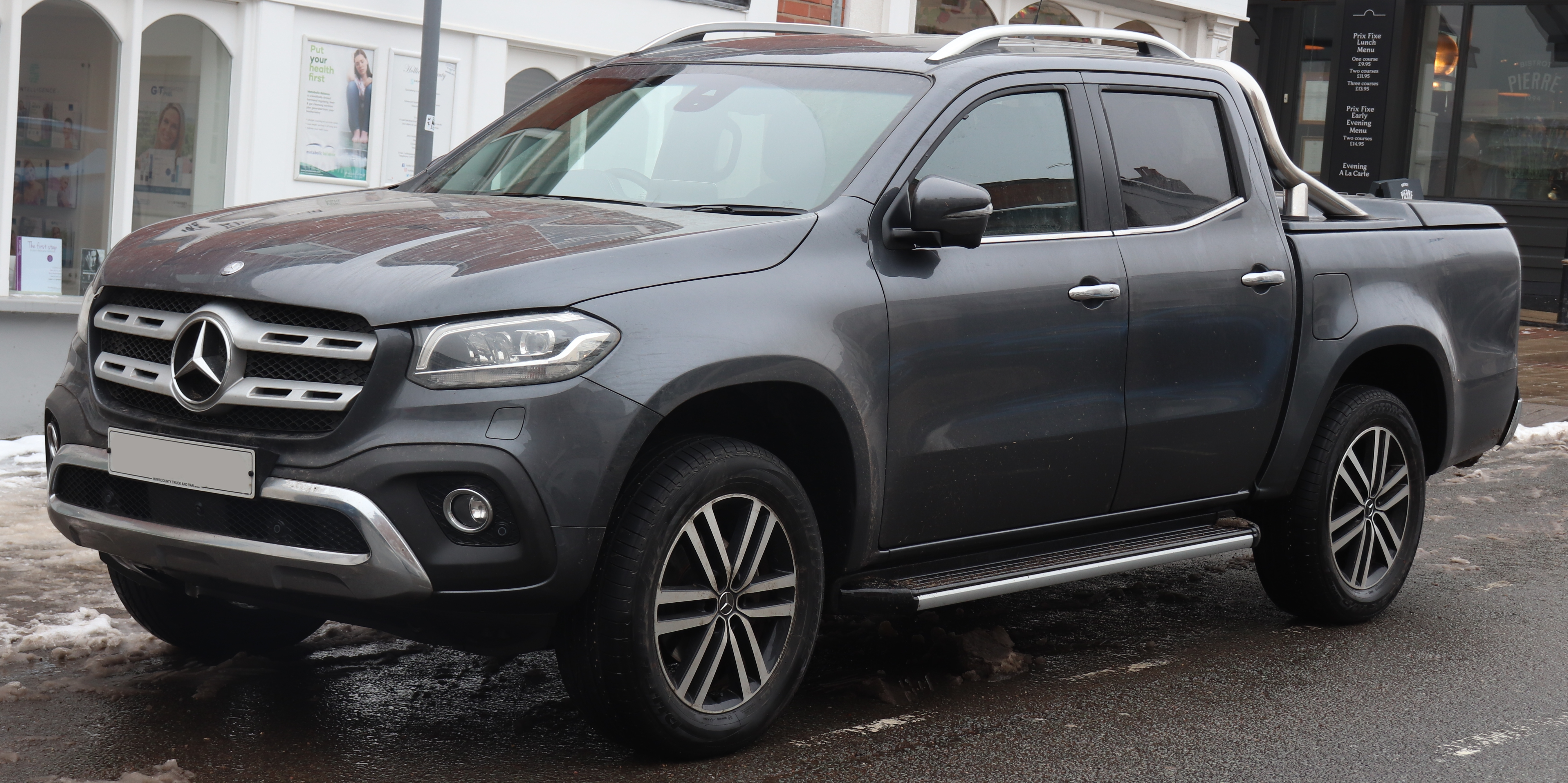 2018 Mercedes-Benz X250 Power D 4MATIC Automatic 2.3 Front Taken in Leamington Spa